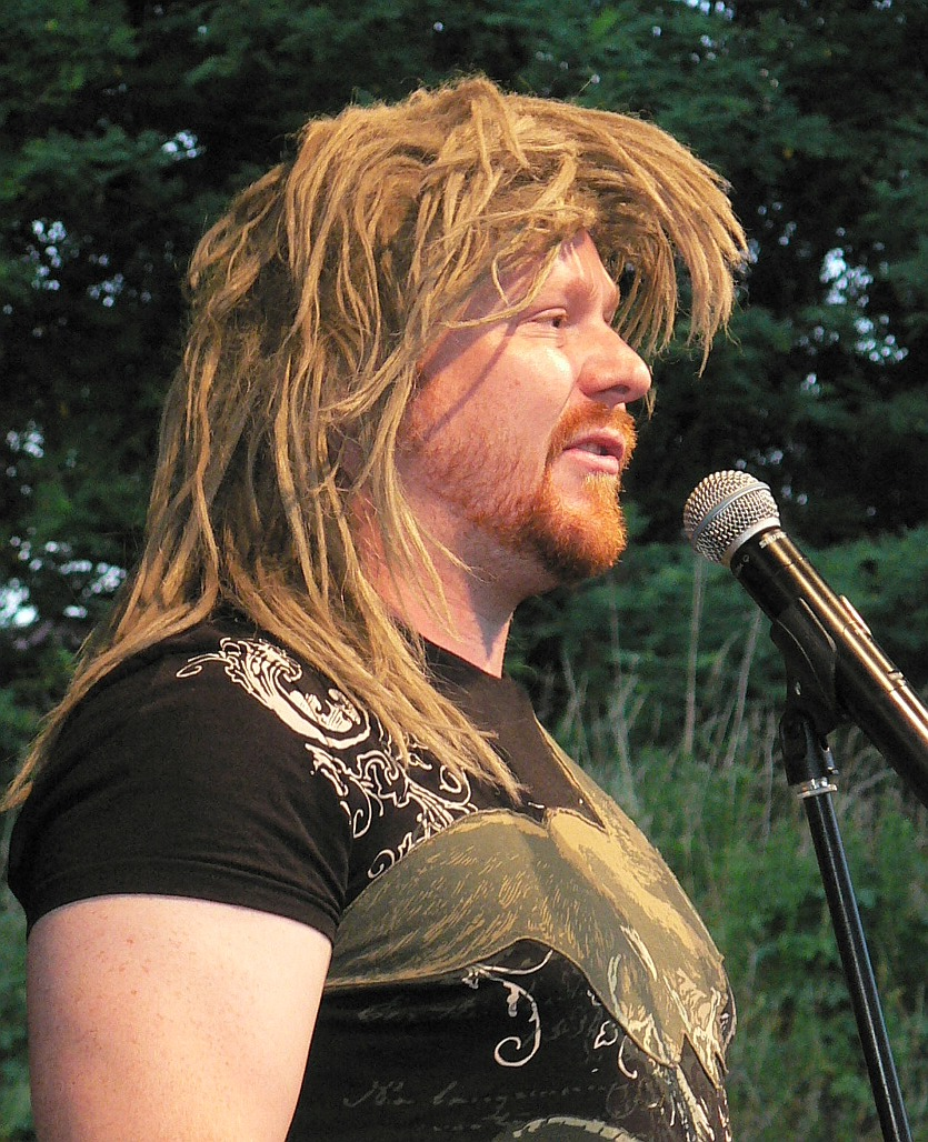 Rokker Zsoltti 3